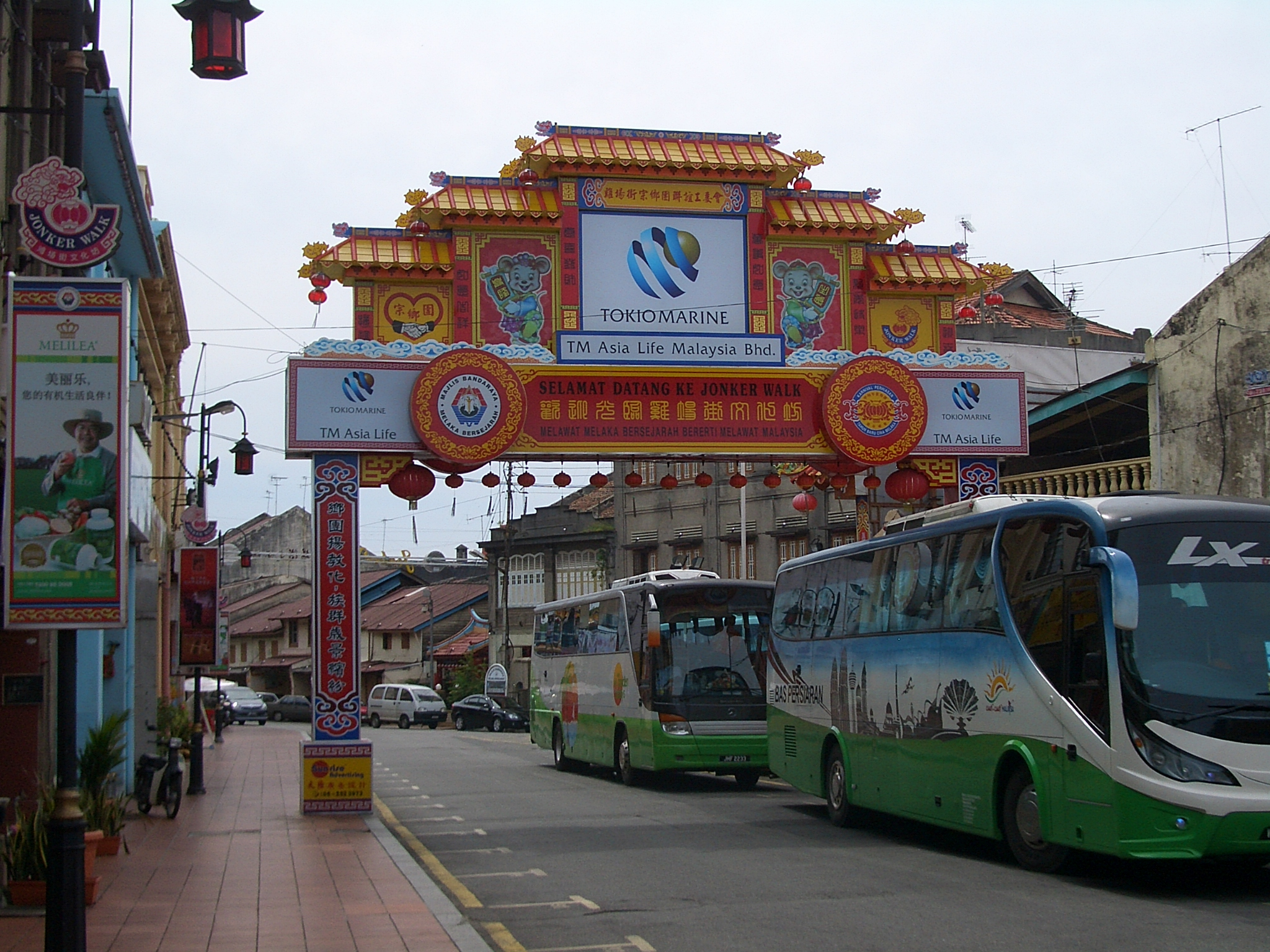 Melaka Chinatown (Baru Cina)